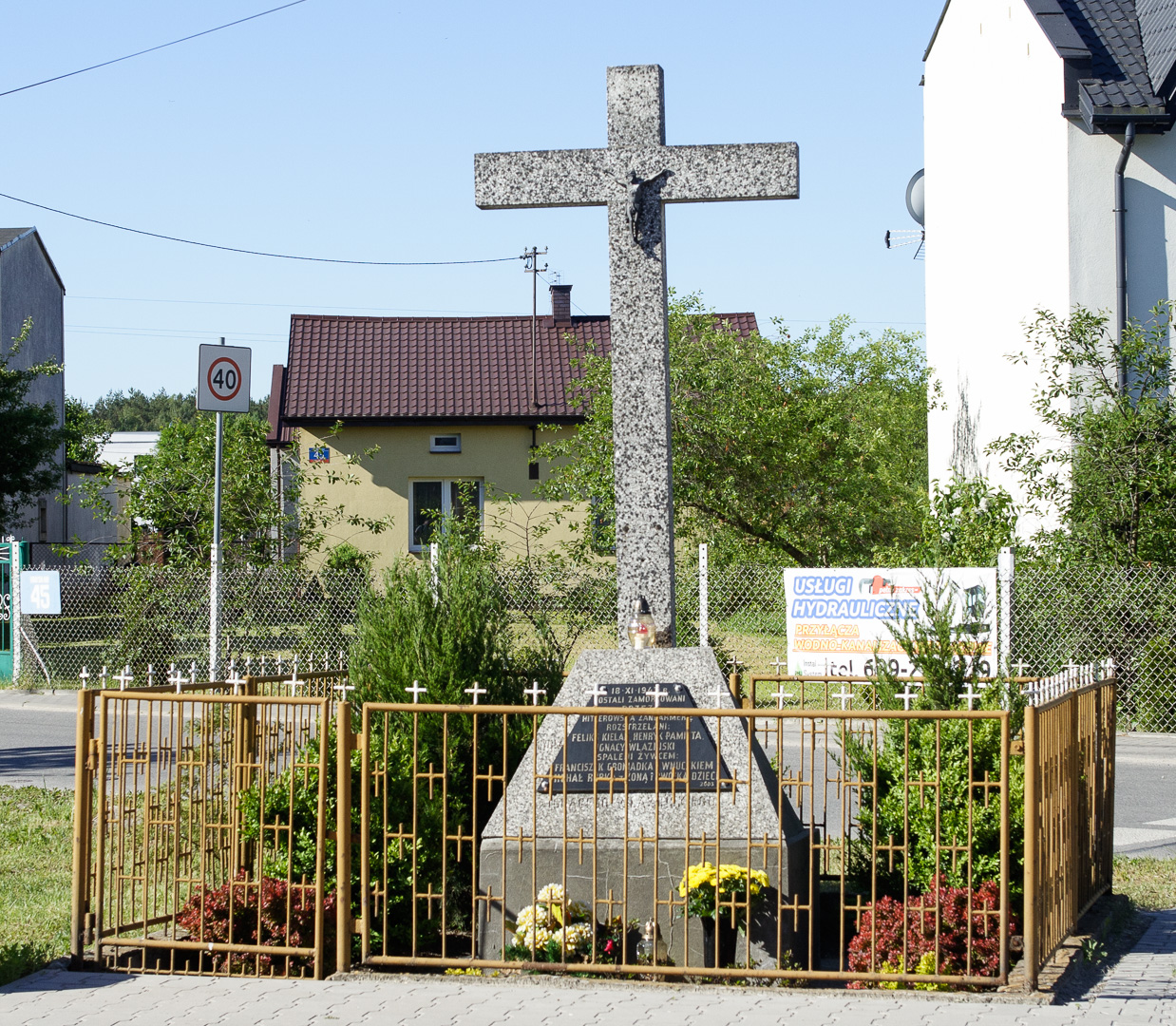 Cross commemorating the murdered savagely in 1943. Truskaw, Kampinos Forest, Poland. Translation of the inscription on the plate: 18·XI·1943 WERE MURDERED BY HITLERITE GENDARMERIE SHOT: FELIKS KIELAK, HENRYK PAMIĘTA IGNACY WLAZIŃSKI BURNED ALIVE: FRANCISZEK GROMADKA WITH GRANDSON MICHAŁ RURKA WITH WIFE AND TWO CHILDREN 2003